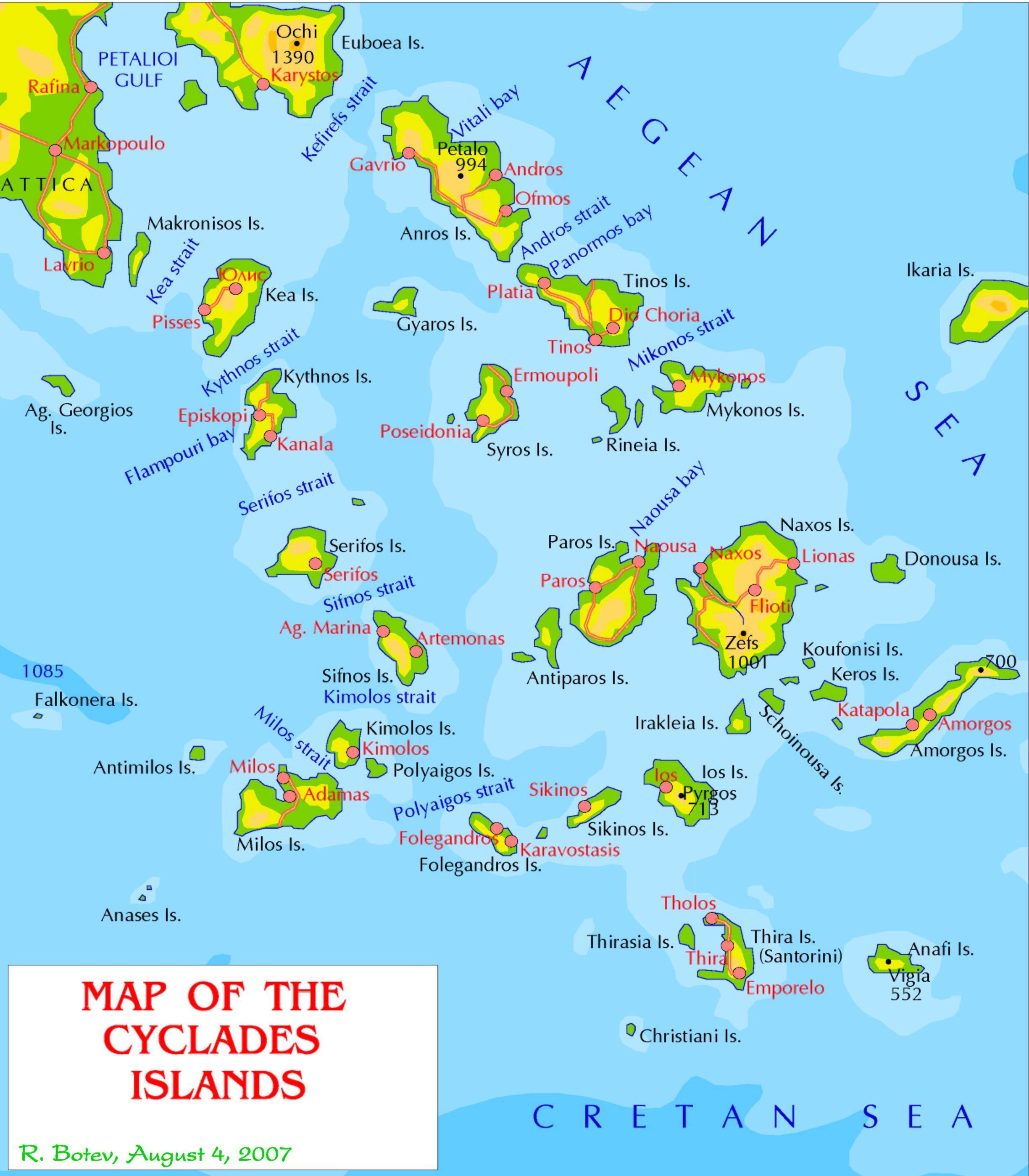 Map of Cyclades in English